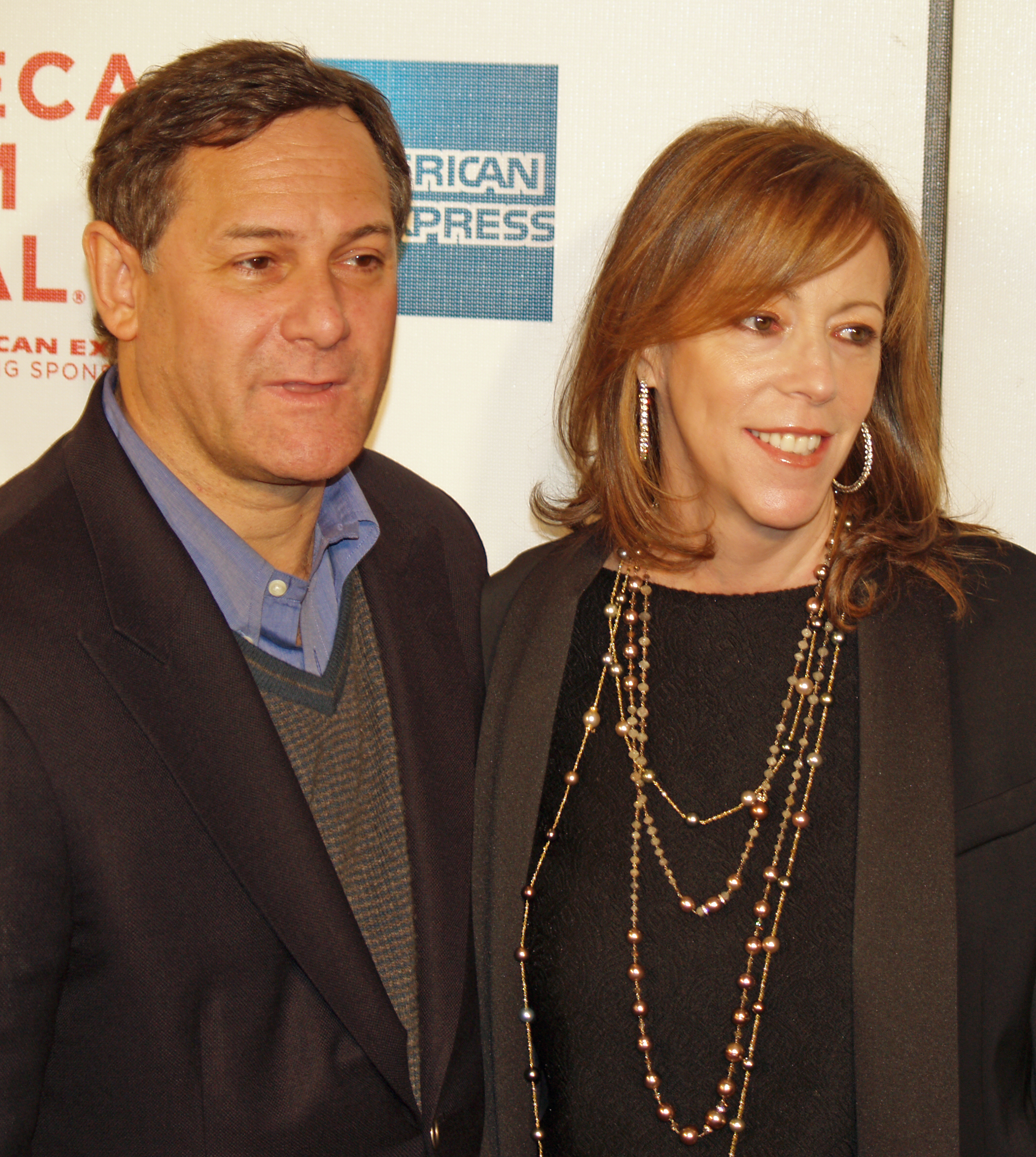 Craig Hatkoff with wife Jane Rosenthal at the Tribeca Film Festival in New York City for the premiere of Speed Racer.